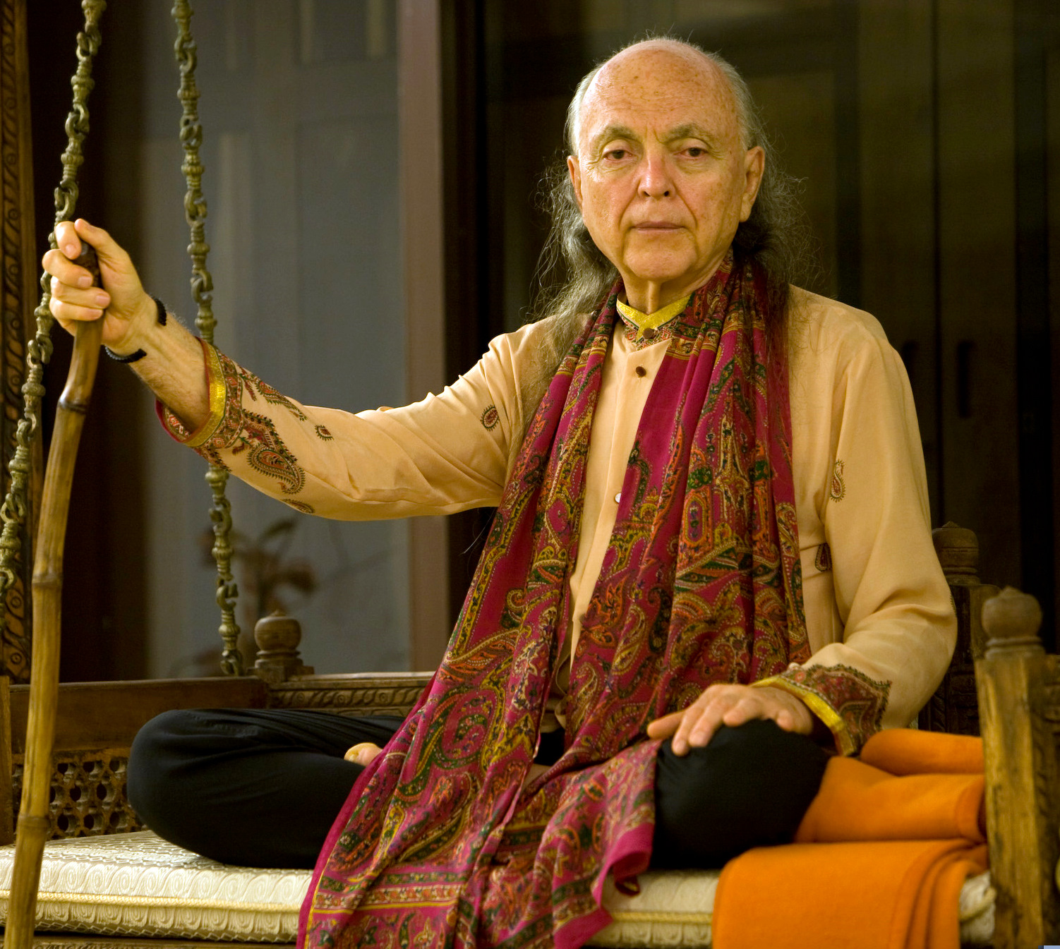 Photograph of Adi Da Samraj, Novermber 3, 2008